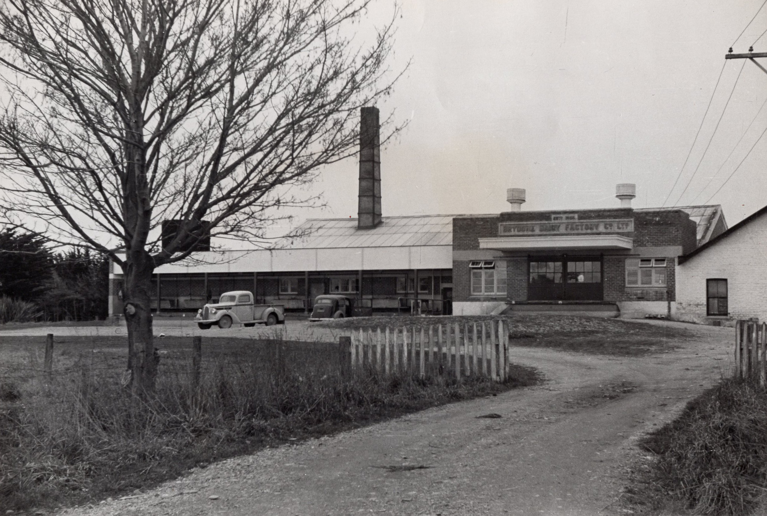 Archives New Zealand Reference: AAFZ 6329 W3302 Box 49